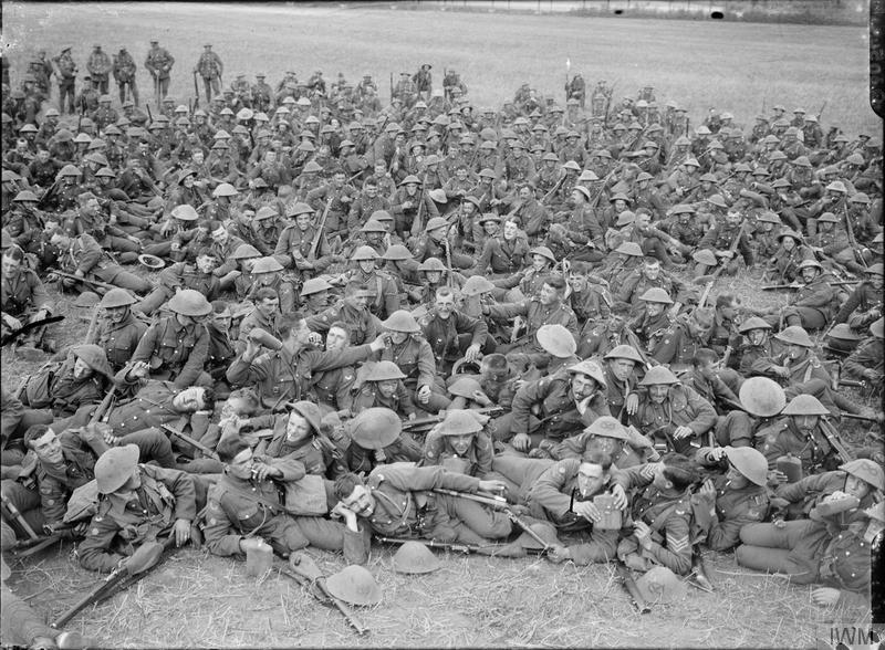 The British Army on the Western Front 1914-1918 The 1st Battalion North Staffordshire (Prince of Wales's) Regiment near Cassel, 12th September 1917.